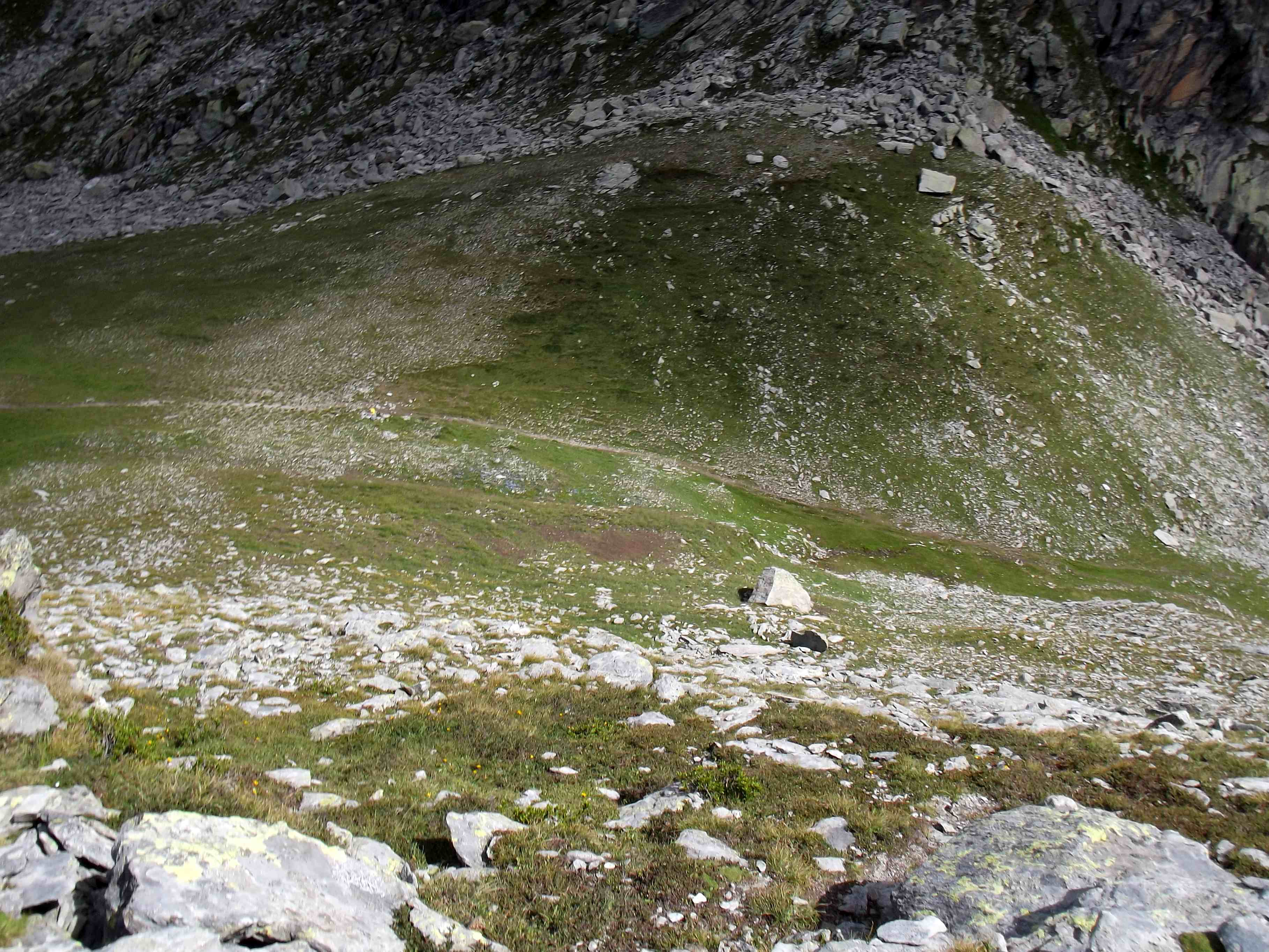 Colle del Loo (Pennine Alps, Aosta Valley/Valsesia) as seen from punta Lazoney N ridge